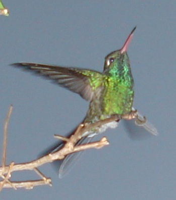 Chlorstilbon ricordii, male, photography taken in Havana, Cuba, with flash, framed.